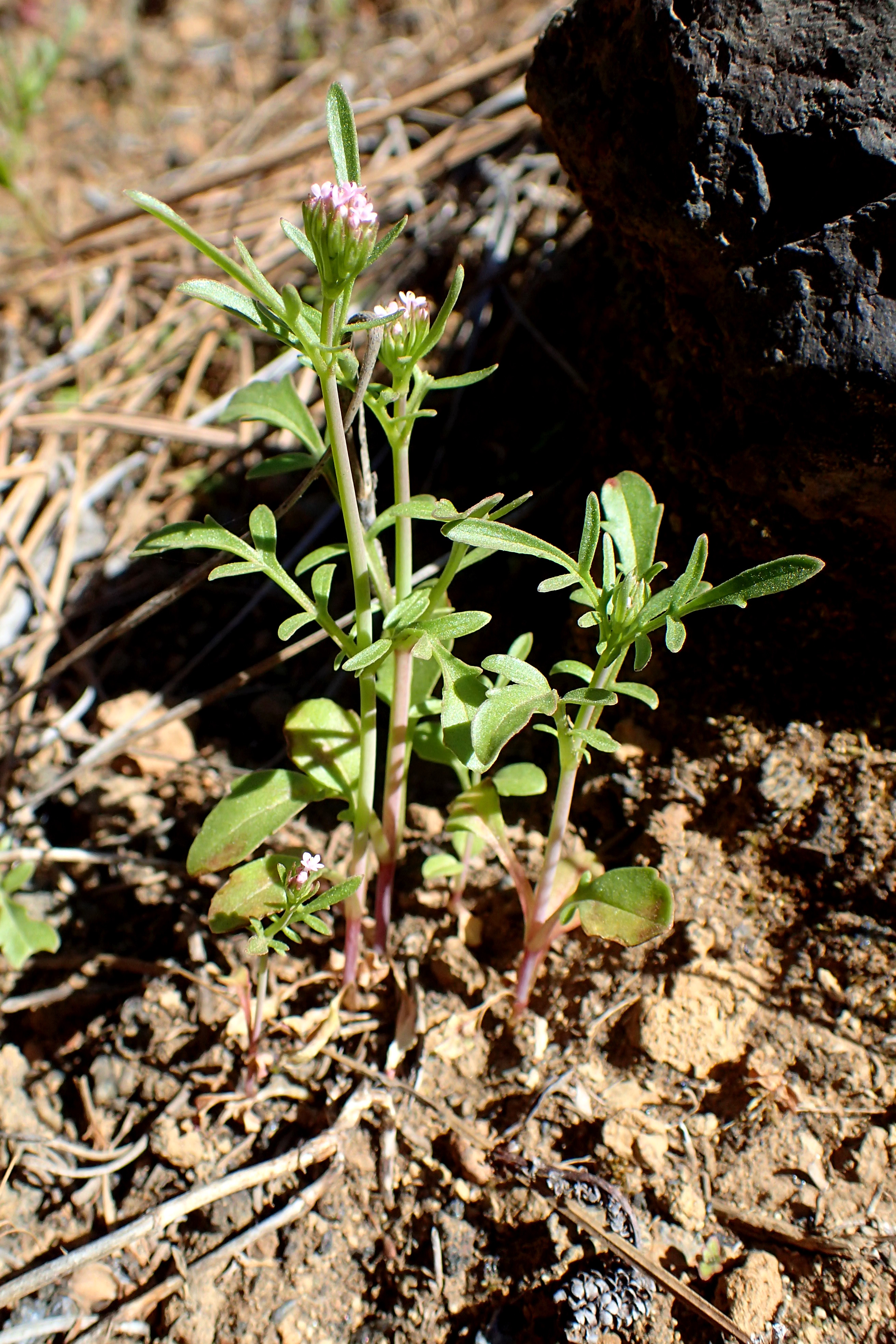 Centranthus calcitrapae near Chinyero, Tenerife, Canary Islands